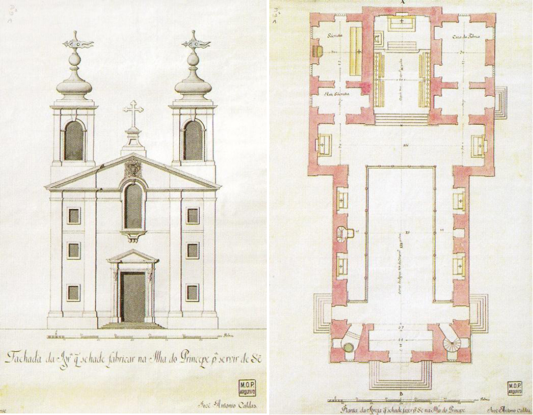 Project for the Cathedral of São Tomé and Príncipe by military engineer José António Caldas. The church was never built.